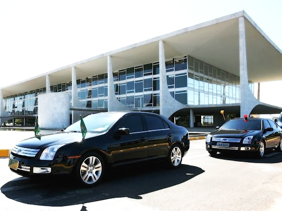 Brazilian presidential motorcade leaving the Palácio do Planalto in Brasília.